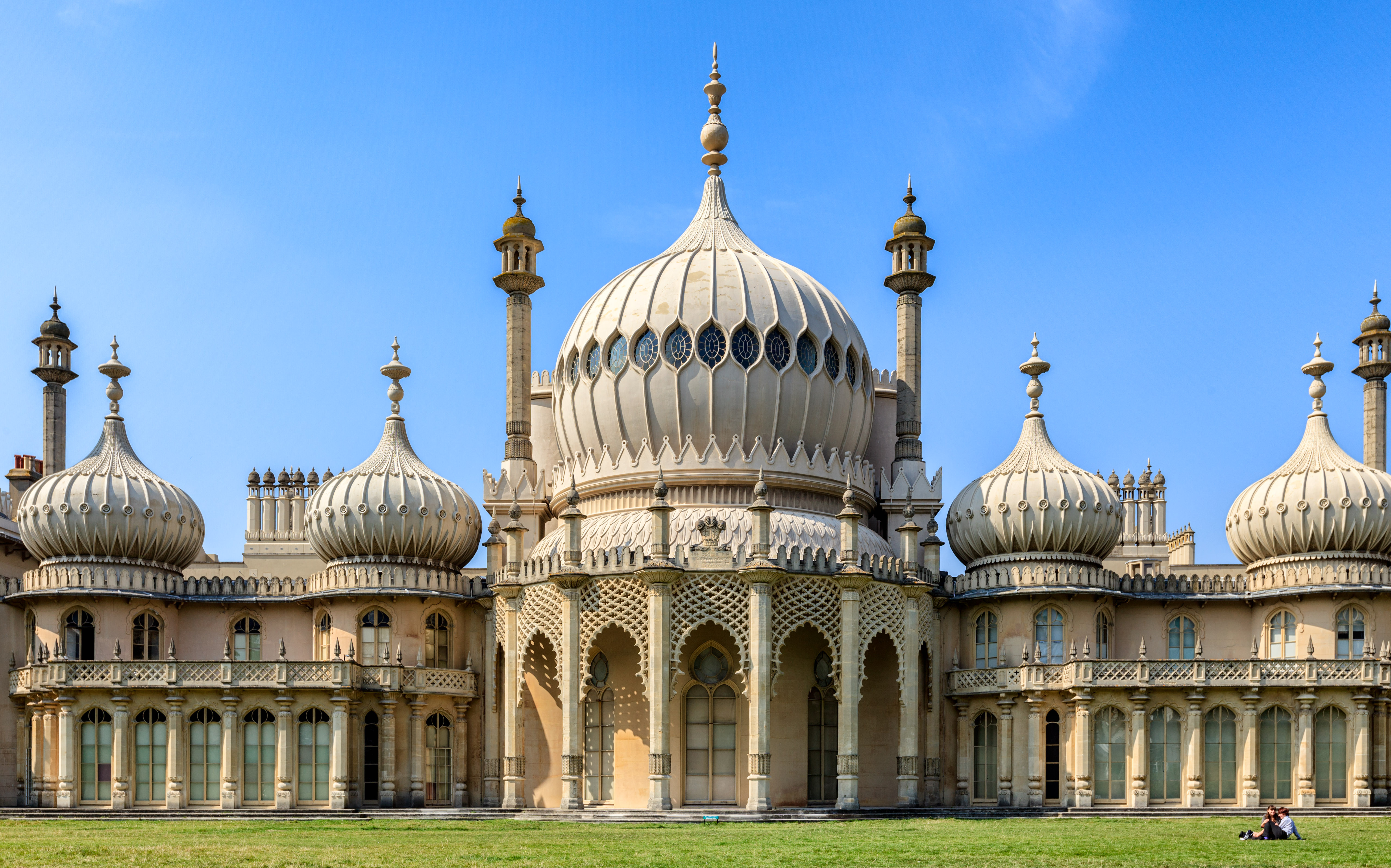 Brighton royal pavilion_Qmin